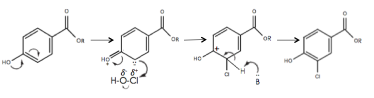 Arrow pushing mechanism of the formation of a mono-chlorinated paraben.